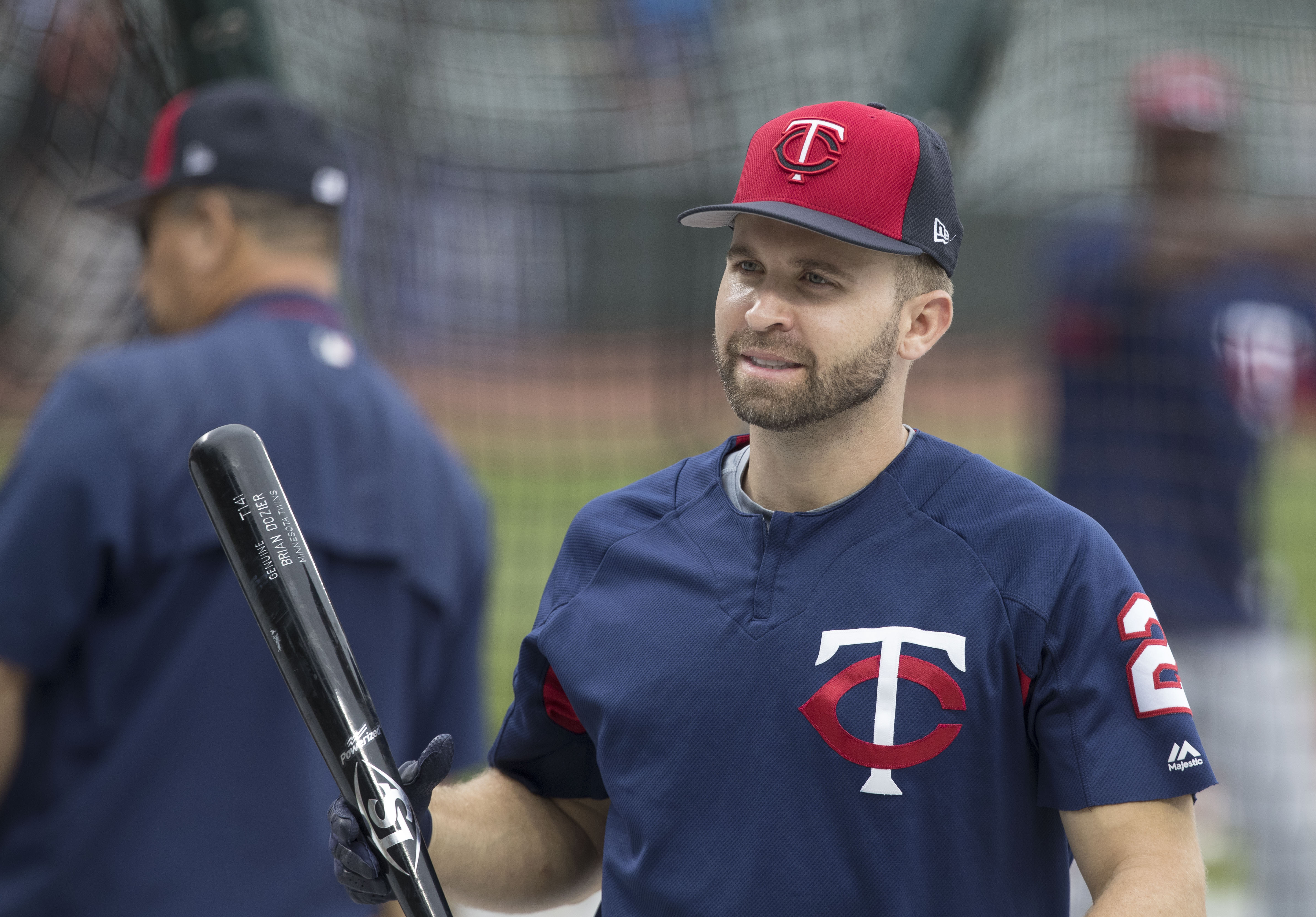 Twins at Orioles 5/22/17